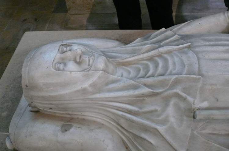 Blanche of Navarre (1331–1398)